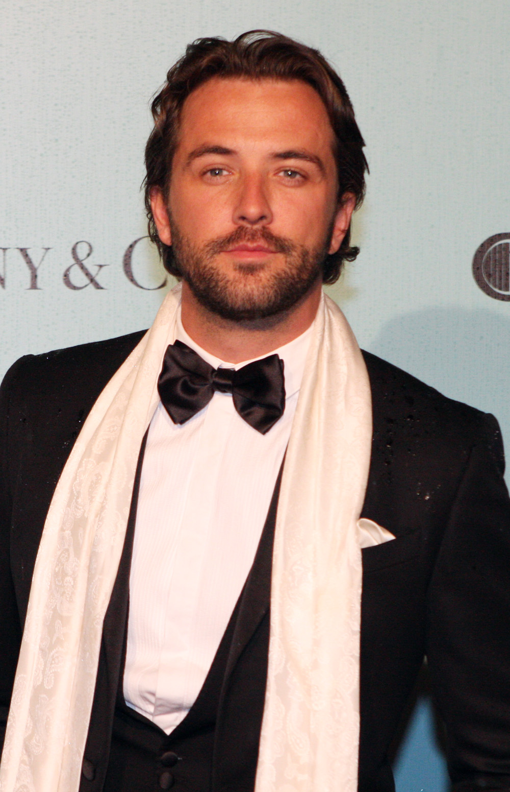 The Great Gatsby breaking international box office records; Premiere in Sydney, Australia tonight - 22nd May 2013.